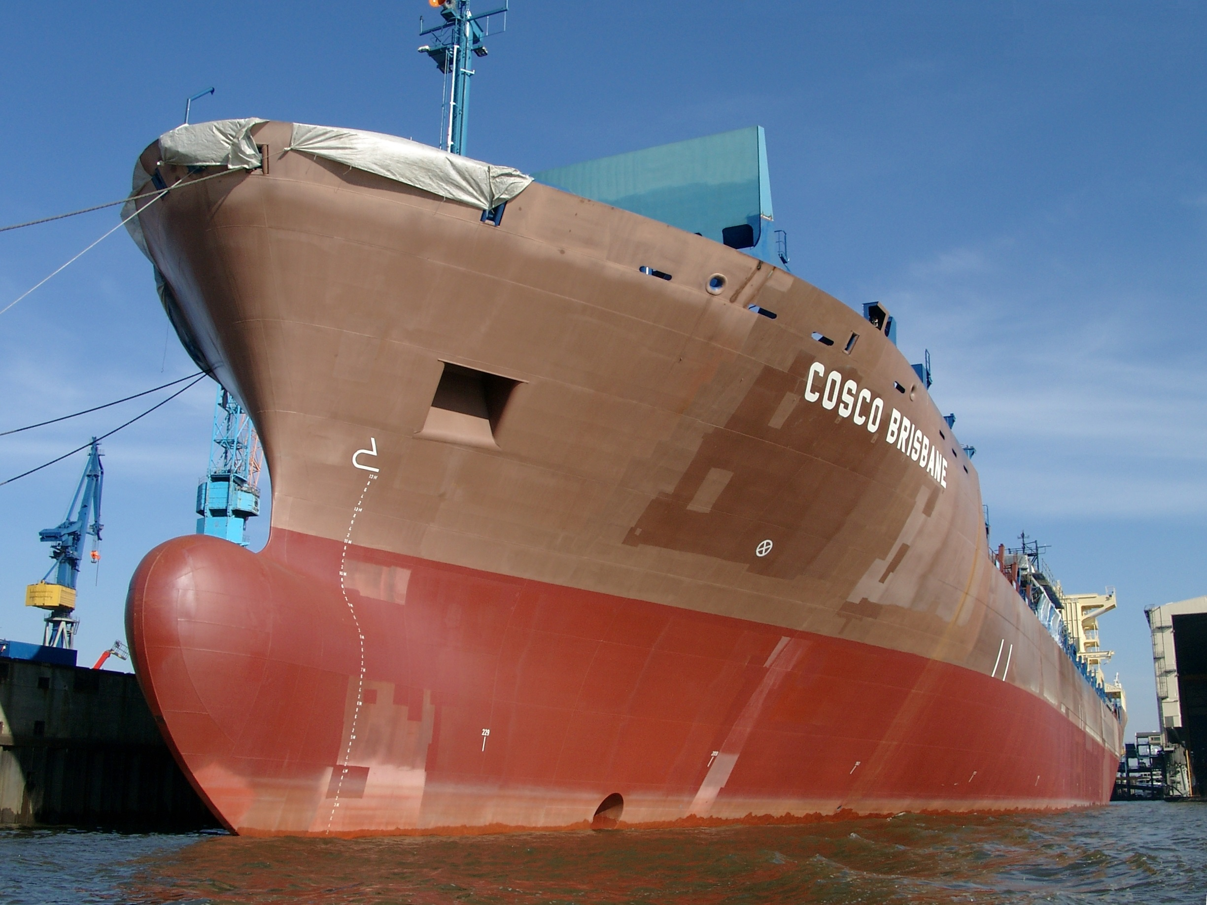 The Cosco Brisbane at Blohm & Voss Shipyard, Hamburg, Germany. Photo taken on April, 3rd, 2005. IMO Number: 9312432 MMSI Number: 636091316 Callsign: A8GT6 Length: 216 m Beam: 30 m